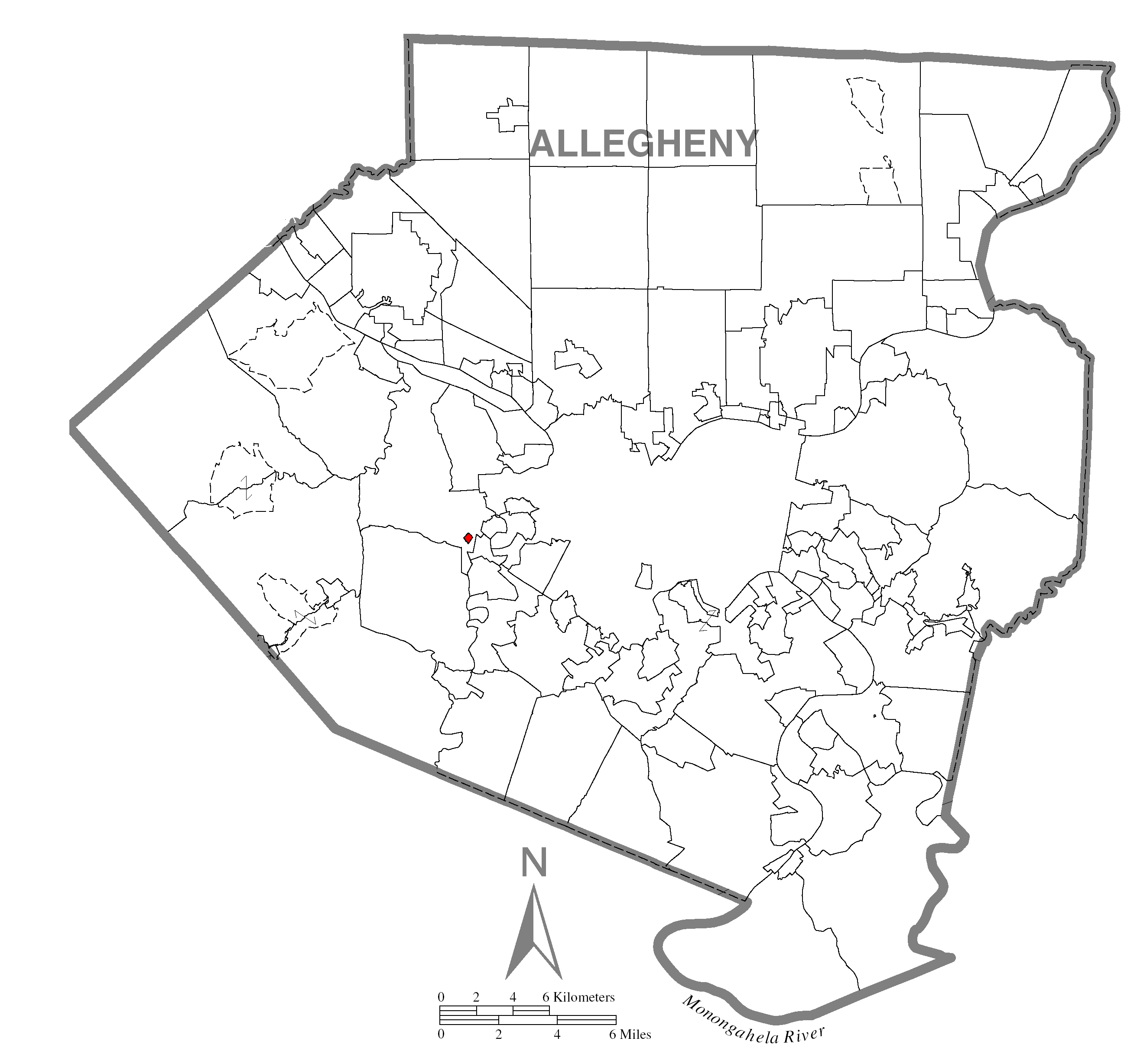 A map of Allegheny County showing Pennsbury Village, Pennsylvania (alternate) highlighted on the map.